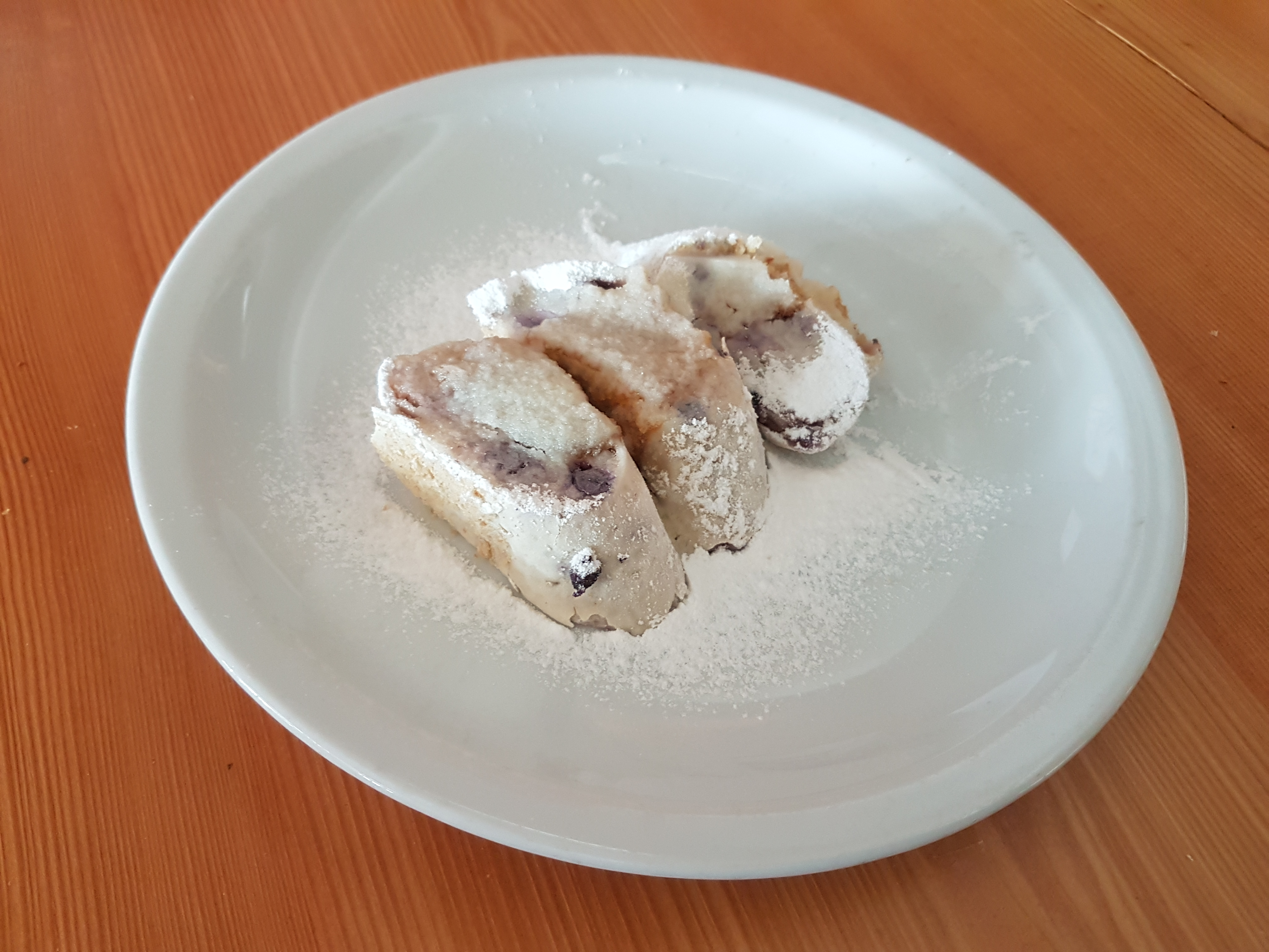 Struklji, traditional Slovenian dish